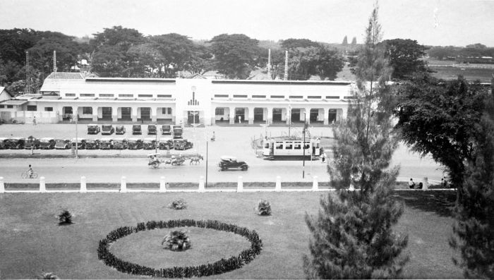 Main railwaystation on Koningsplein (eastside) in Batavia